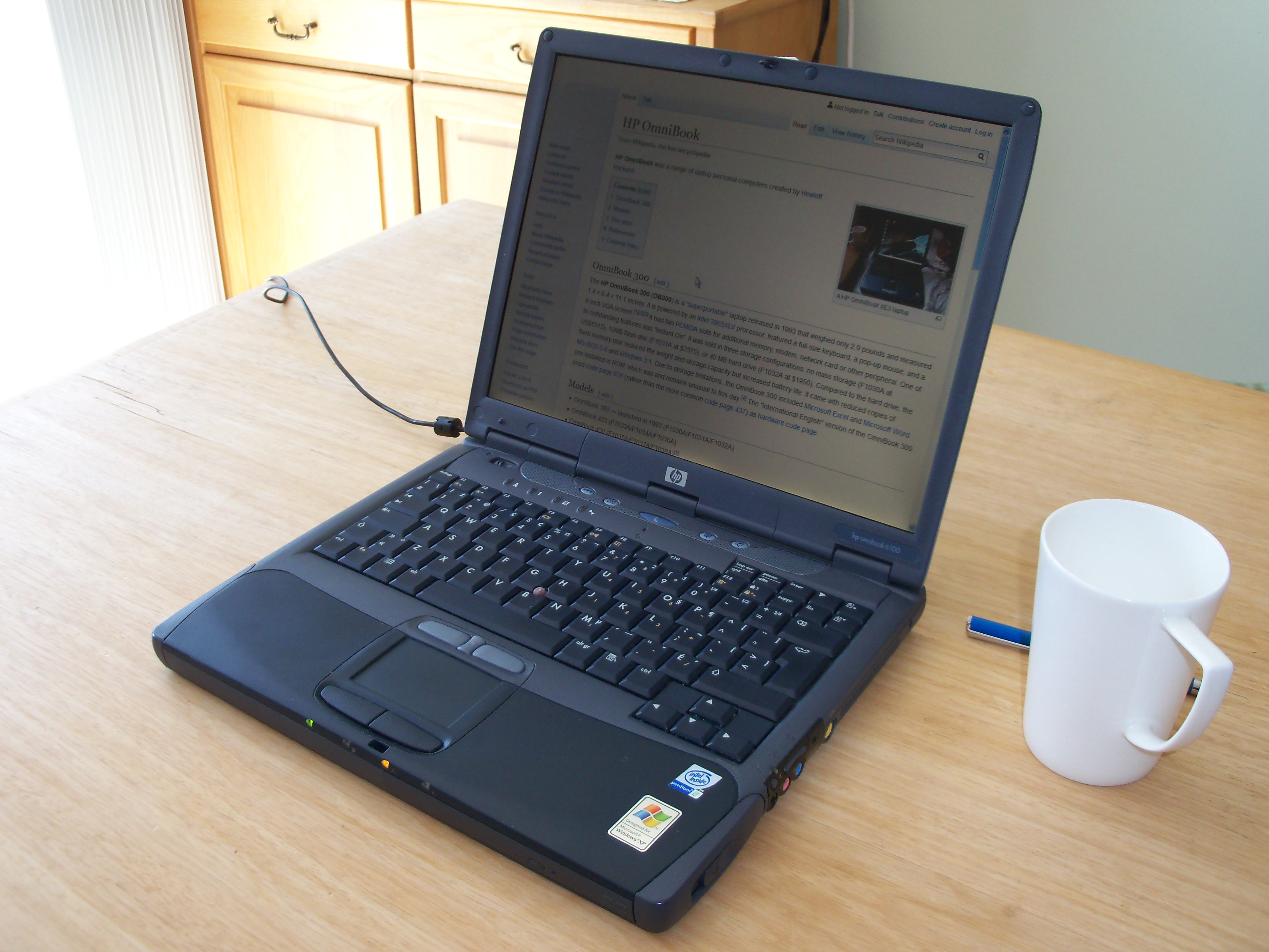 HP OmniBook 6100 laptop computer with French Canadian keyboard.